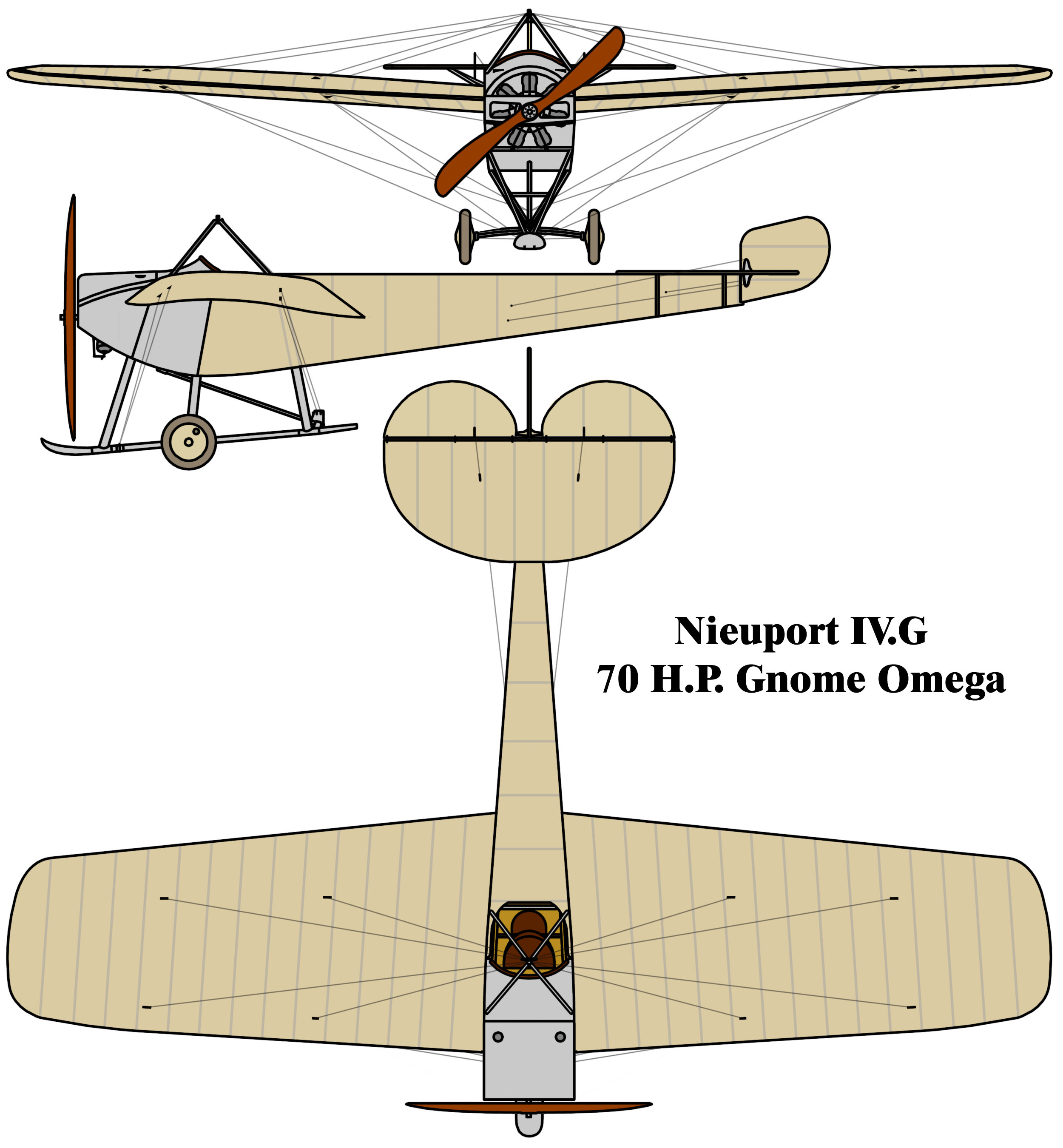 Nieuport IV.G colour drawing